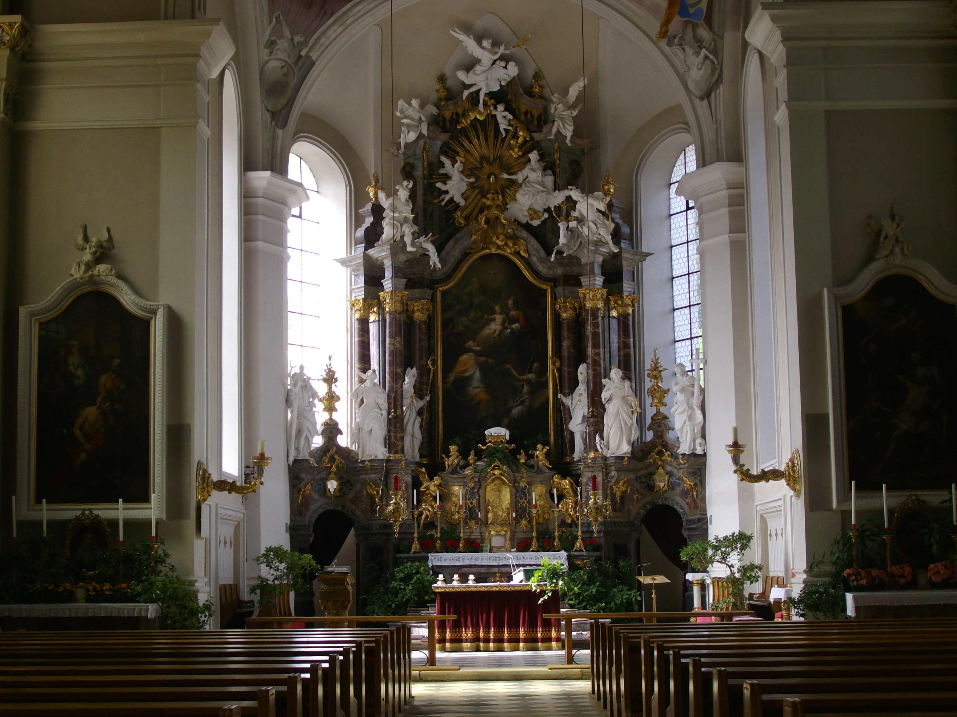 Austria, Tyrol (state), Steinach am Brenner, Pfarrkirche St. Erasmus. Central nave.